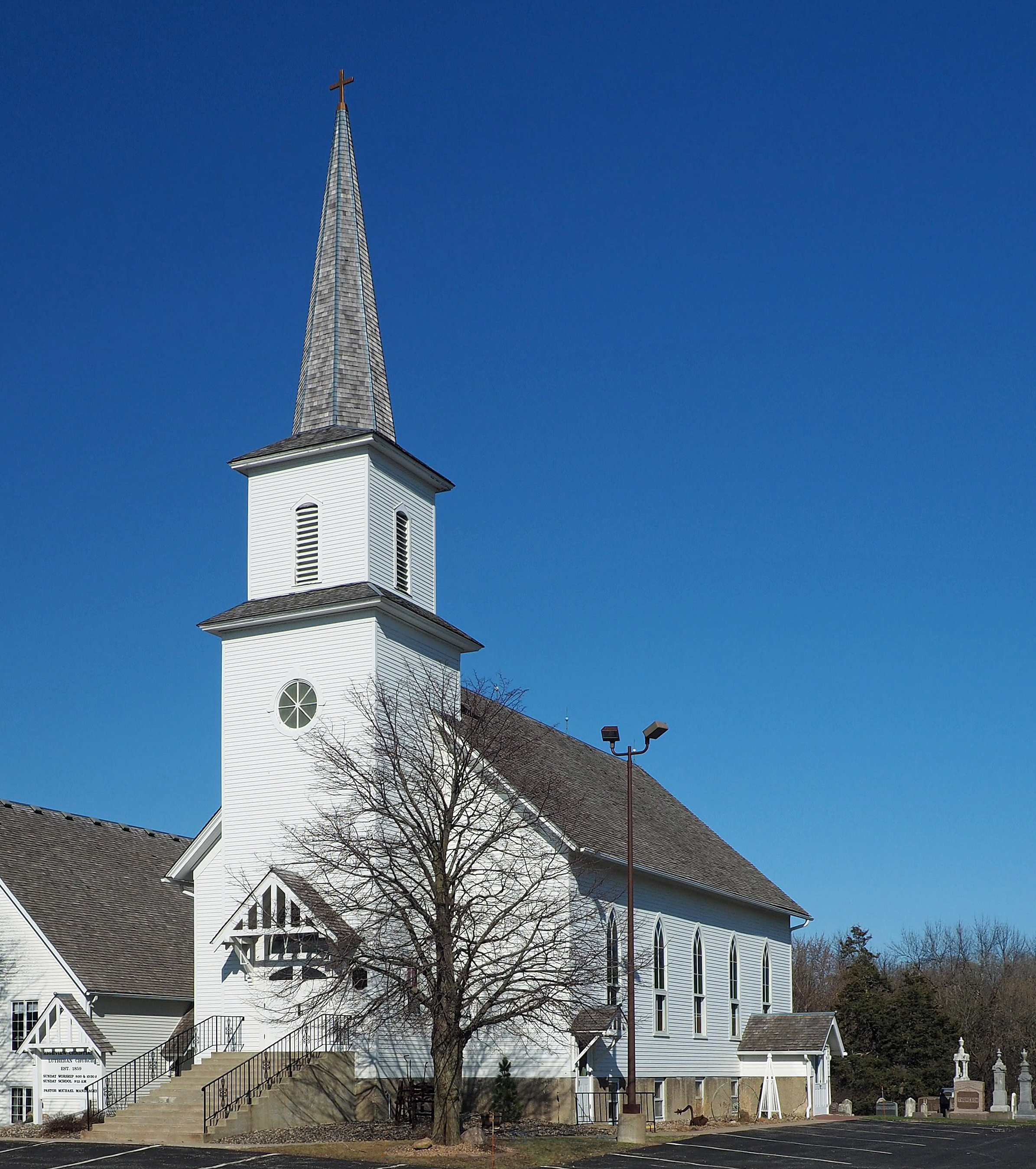 Highview Christiania Lutheran Church (formerly Christiania Lutheran Free Church), 26690 Highview Ave, Eureka Township, Minnesota, USA. Viewed from the southwest.